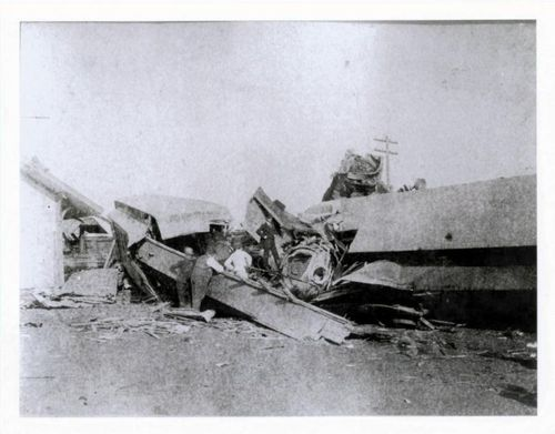 Great Kipton Train Wreck